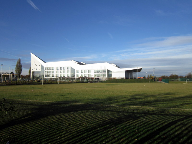 The Archbishop Sentamu Academy on Preston Road